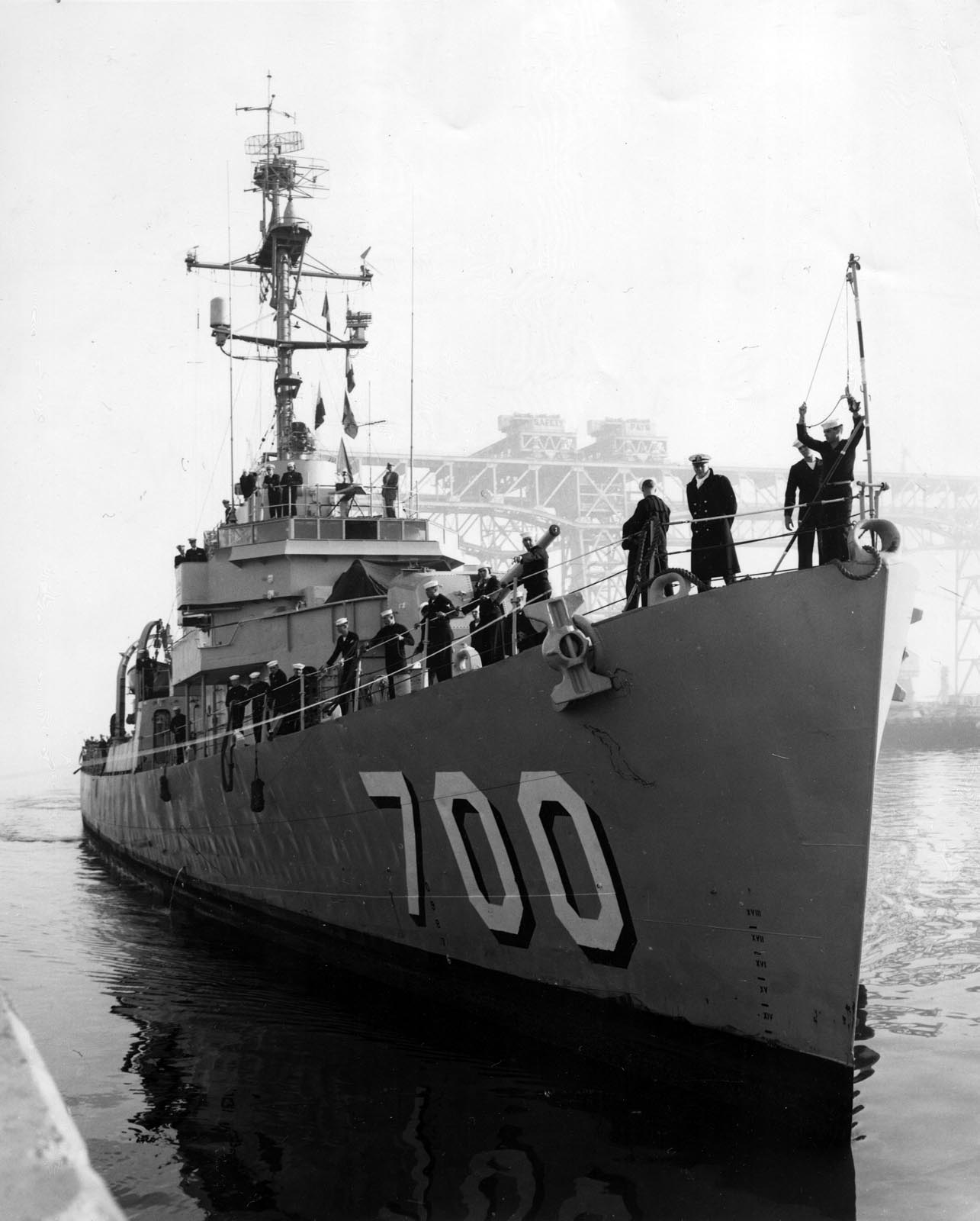 he U.S. Navy destroyer escort USS Currier (DE-700) at the San Francisco Naval Shipyard, California (USA), circa in 1959.